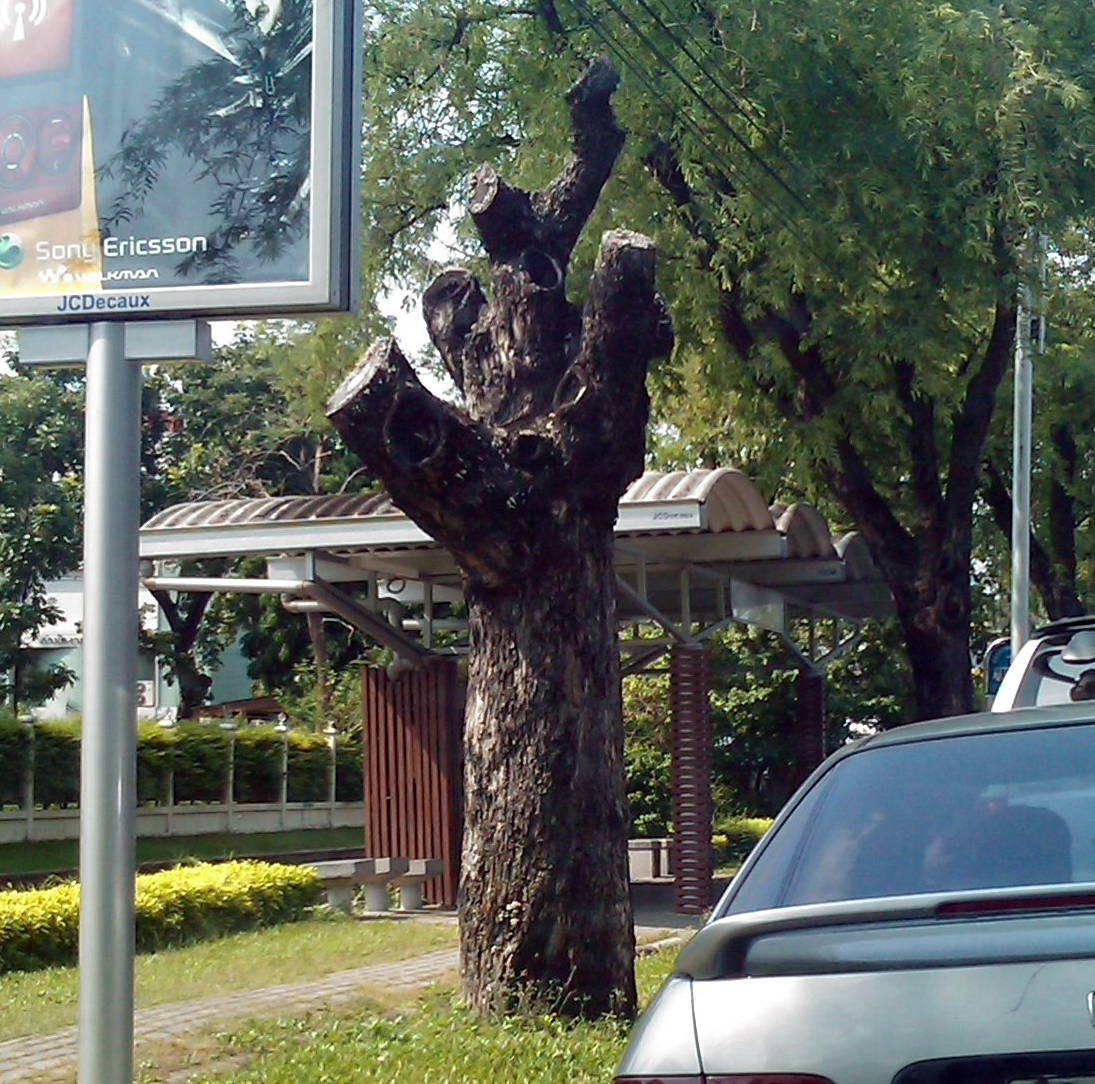 A dead Tamarin tree on Rama 5 Road, Dusit, Bangkok, Thailand due to improper pruning practice by topping in hope for the appearance of pollard tree.